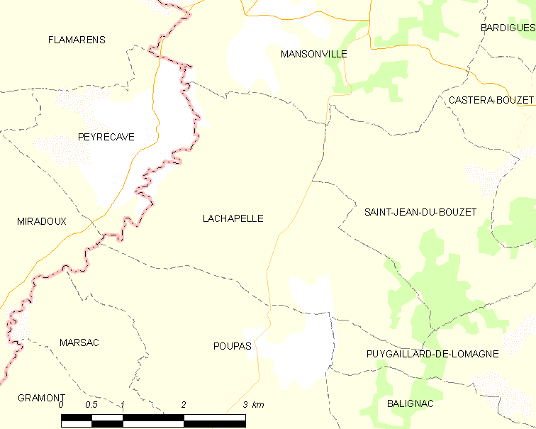 Map of French municipality Lachapelle